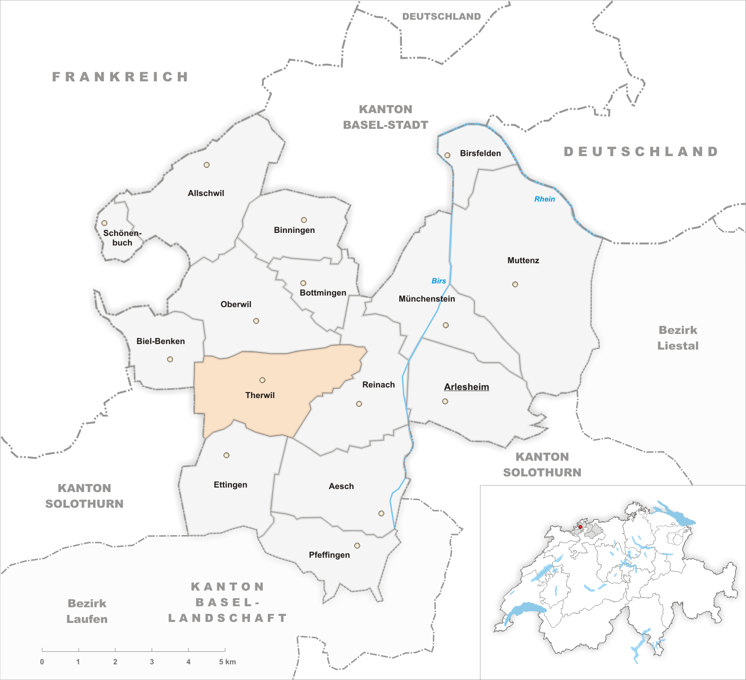 Municipality Therwil